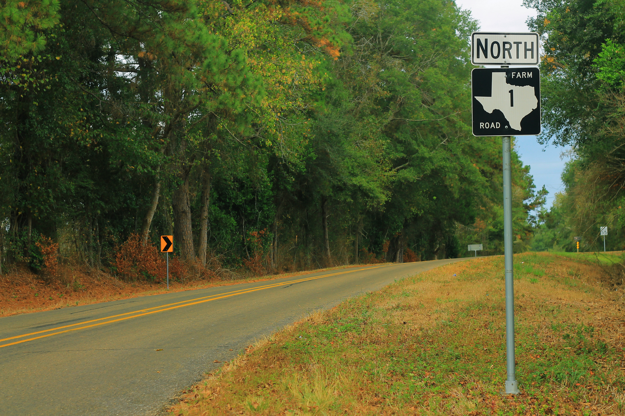 A sign for Texas Farm to Market Road 1 near Rosevine, Texas.